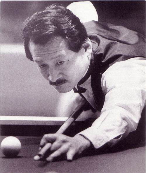 Japanese carom billiards player